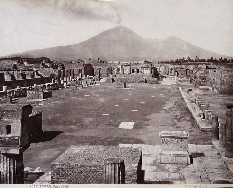 Giacomo Brogi (1822-1881), "Pompeii. Commercial Forum". Catalogue # 5026.